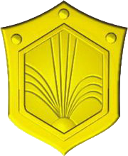 Chemical troops branch insignia of Ukraine